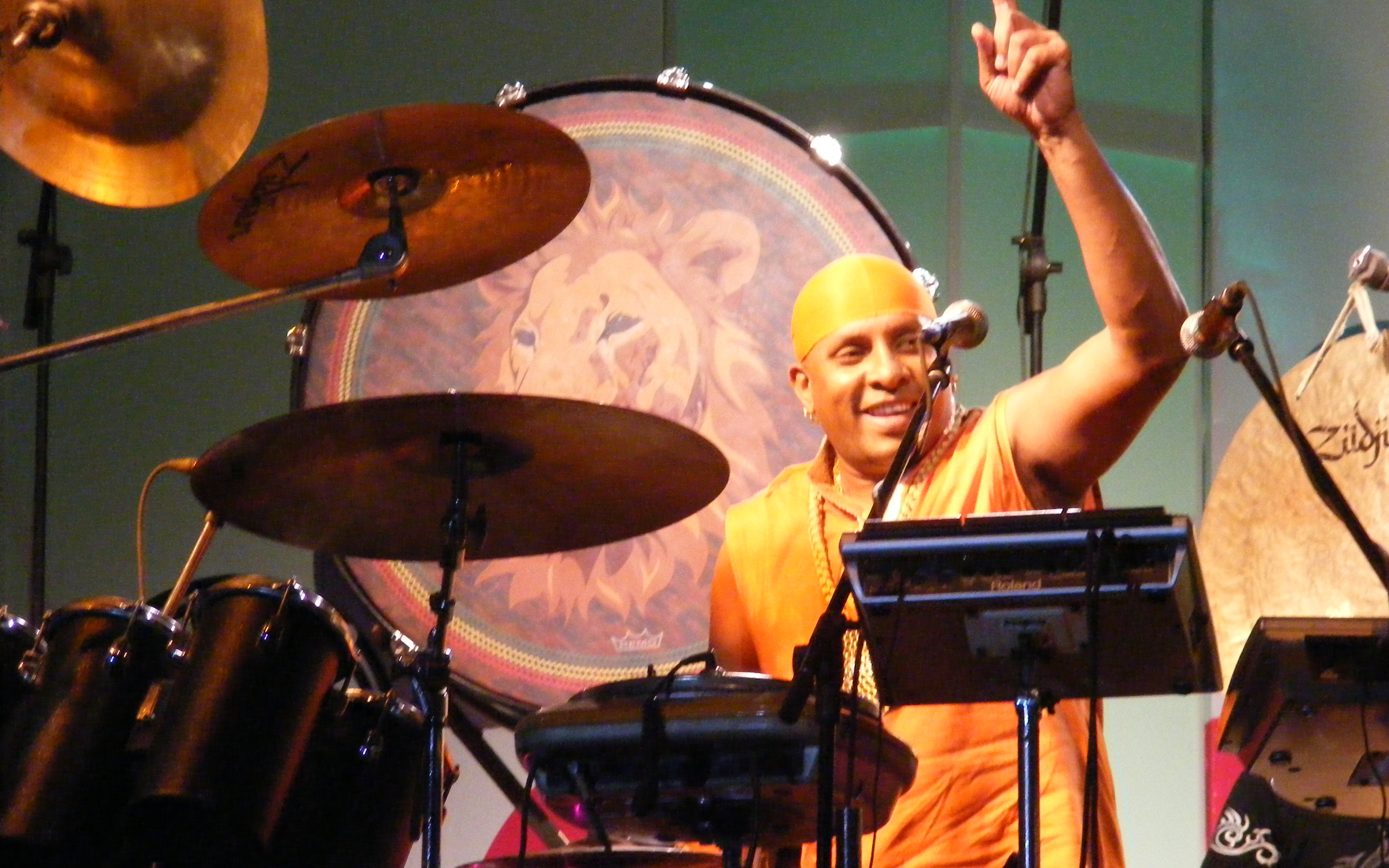 Sivamani performing live at Poona Club Lawns for Times Festival 2009